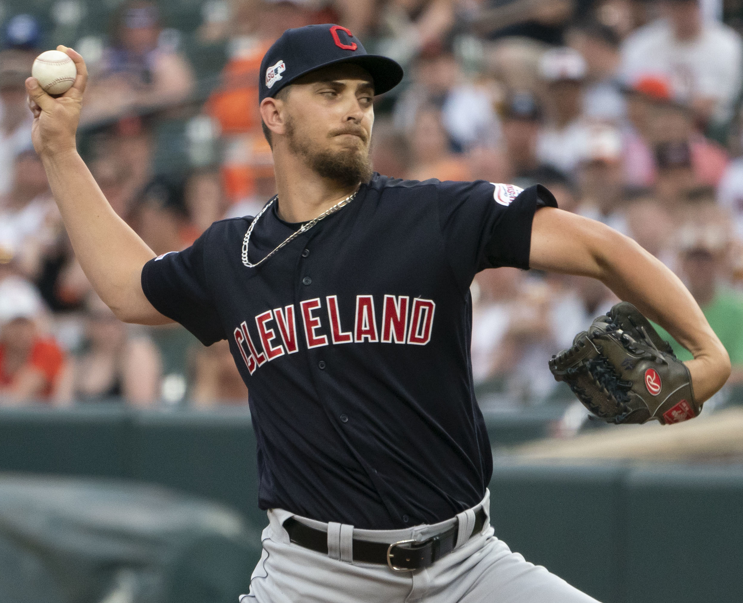 AJ Cole delivers a pitch for the Cleveland Indians during a 2019 game at Camden Yards in Baltimore